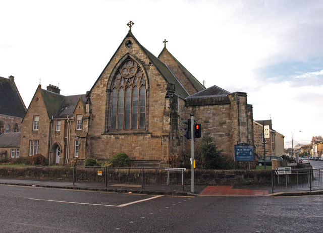 Holy Trinity Scottish Episcopal Church, Kilmarnock. According to a local. The site of the Church and Parsonage were formerly the terminus of the first railway in Scotland, built by the Duke of Portland to transport coal from the mines of Kilmarnock to the pier at Troon for export. I was also told that the railway wagons were horse drawn.[1]